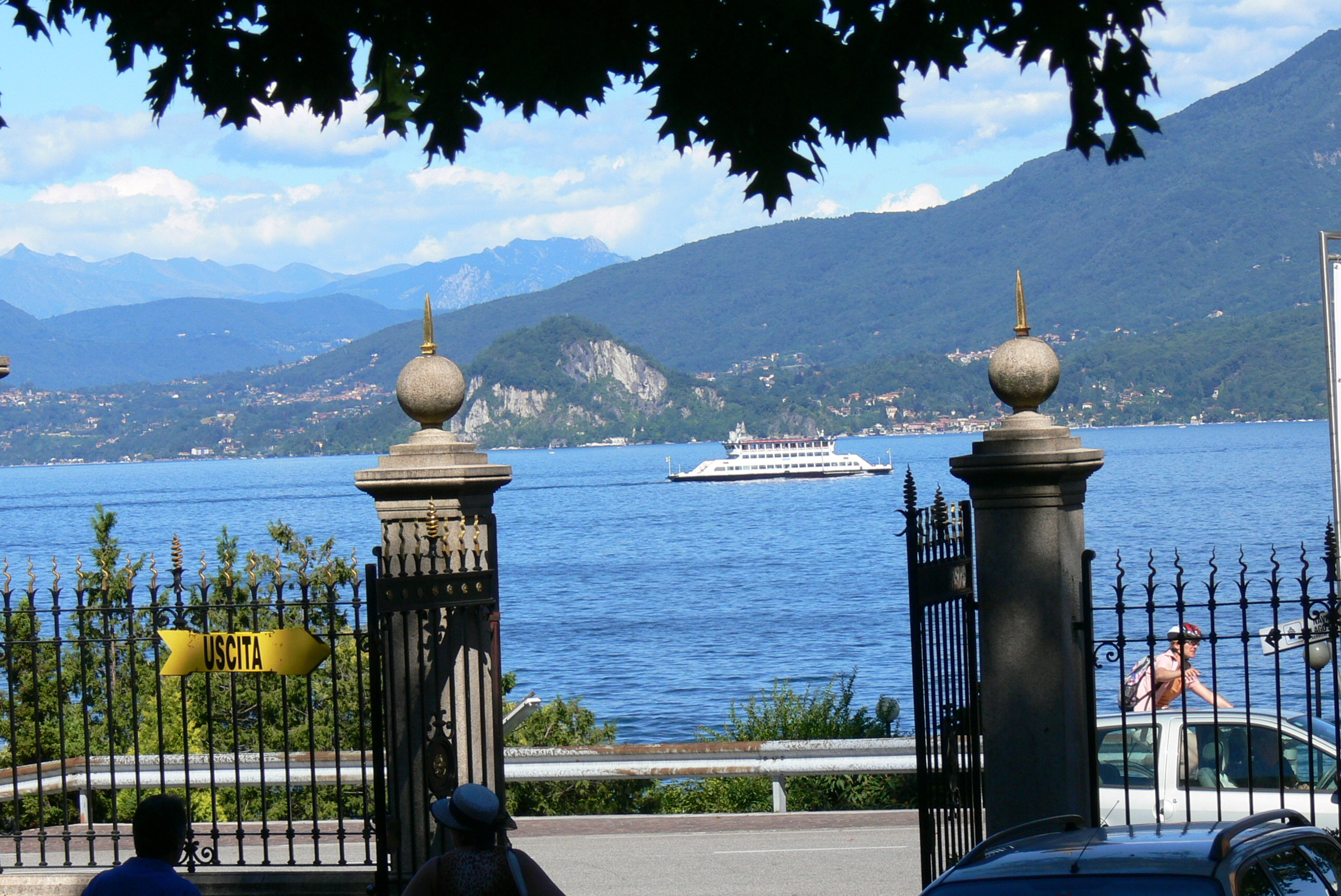 Villa Taranto ( Verbania-Pallanza ). View to the lake Maggiore.